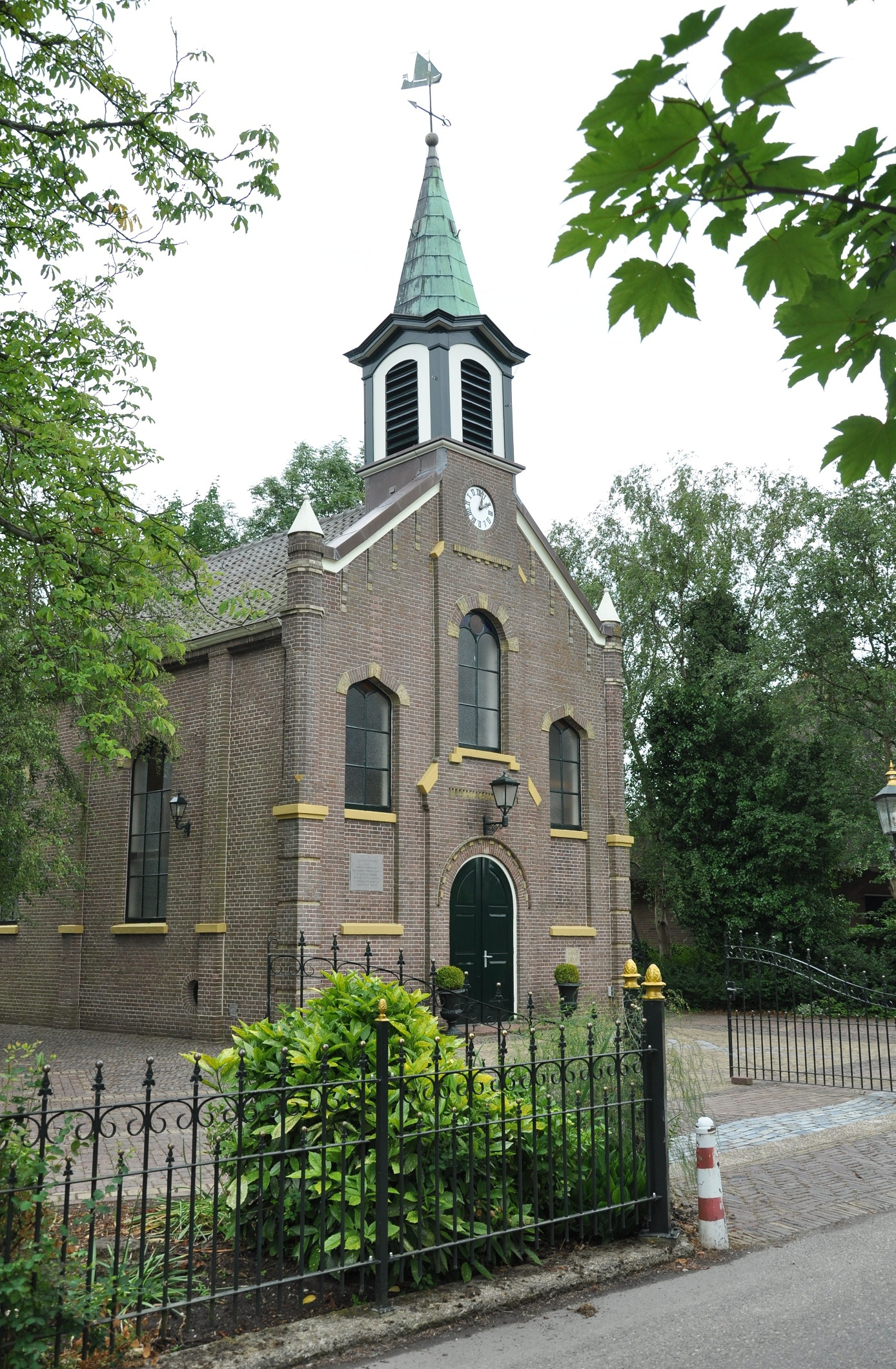 The Protestant church in Kaag (village) dates from 1873-74 (municipality Kaag en Braassem, Province South Holland, Netherlands). The village lies on an island in the Kaag Lakes.